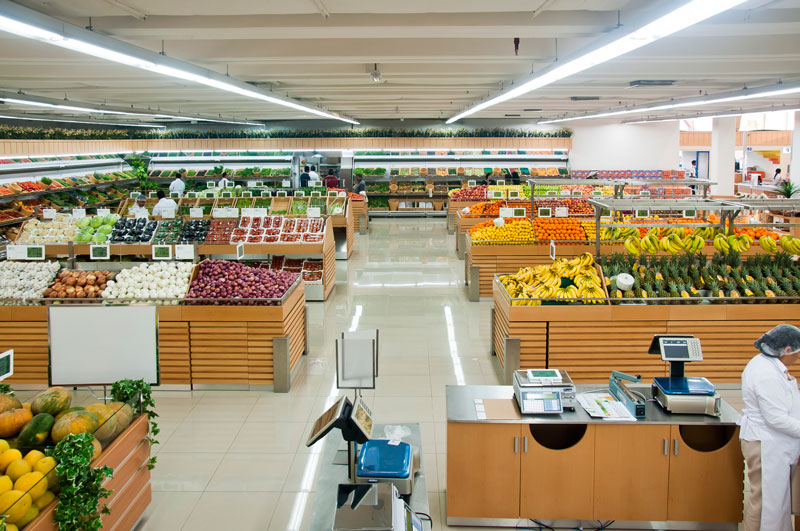 Produce Section in Saveco